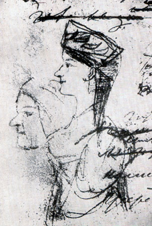 A drawing by A.S. Pushkin, probably a portrait of his nanny